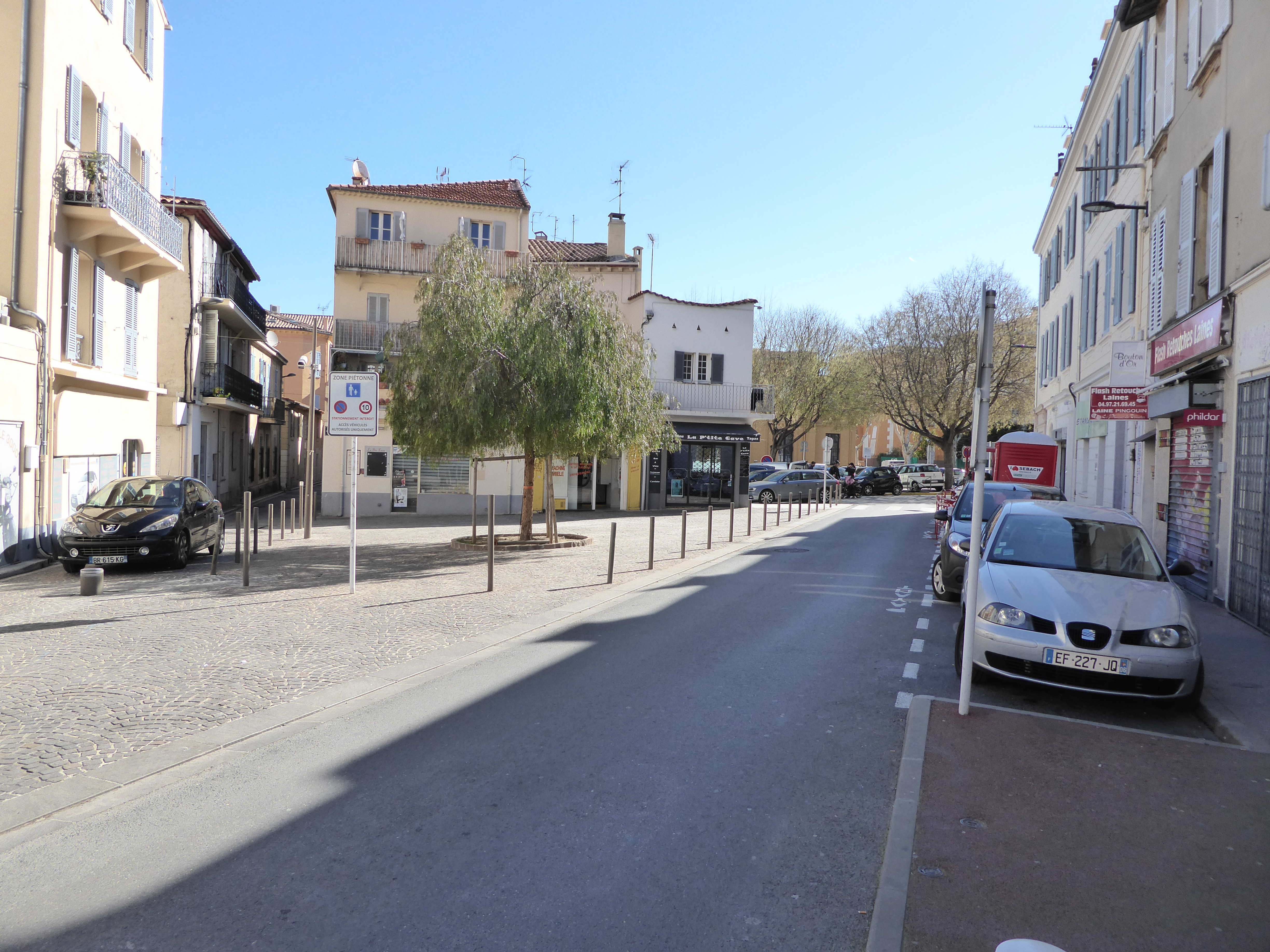 av du 24 aout